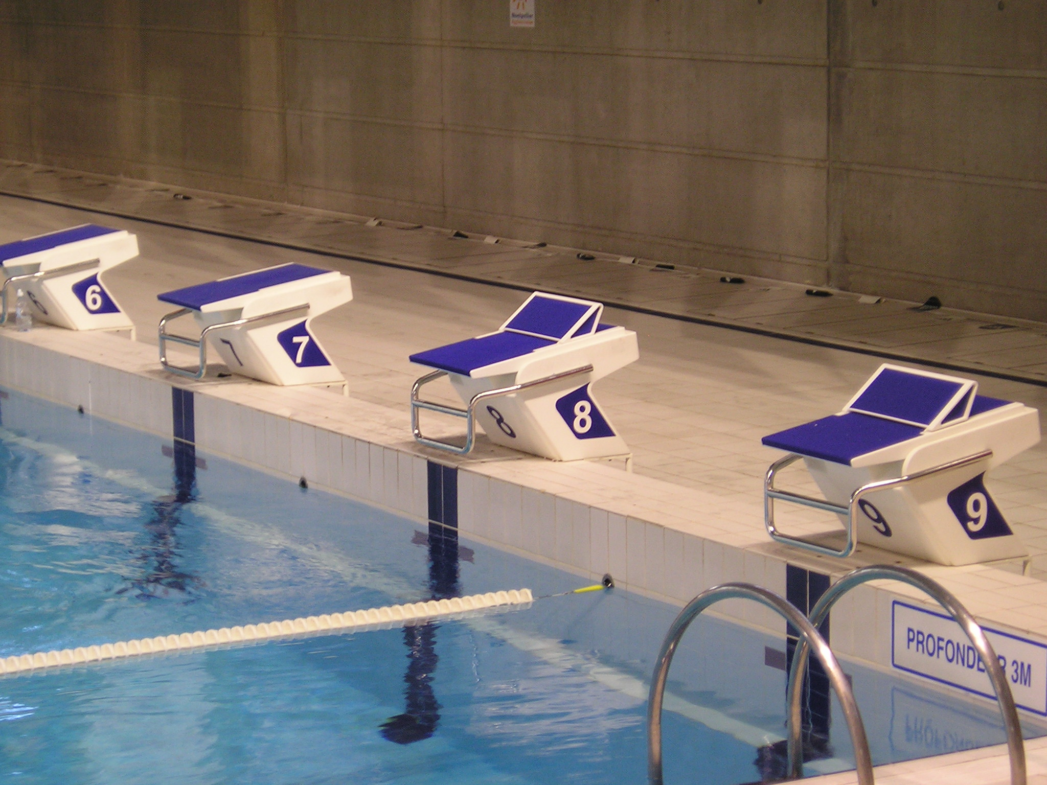 Montpellier, Antigone swimming pool: starting blocks type Rome World Championships. Numbers 8 and 9 are supporting an inclinated wedge for the swimmer to choose his position.